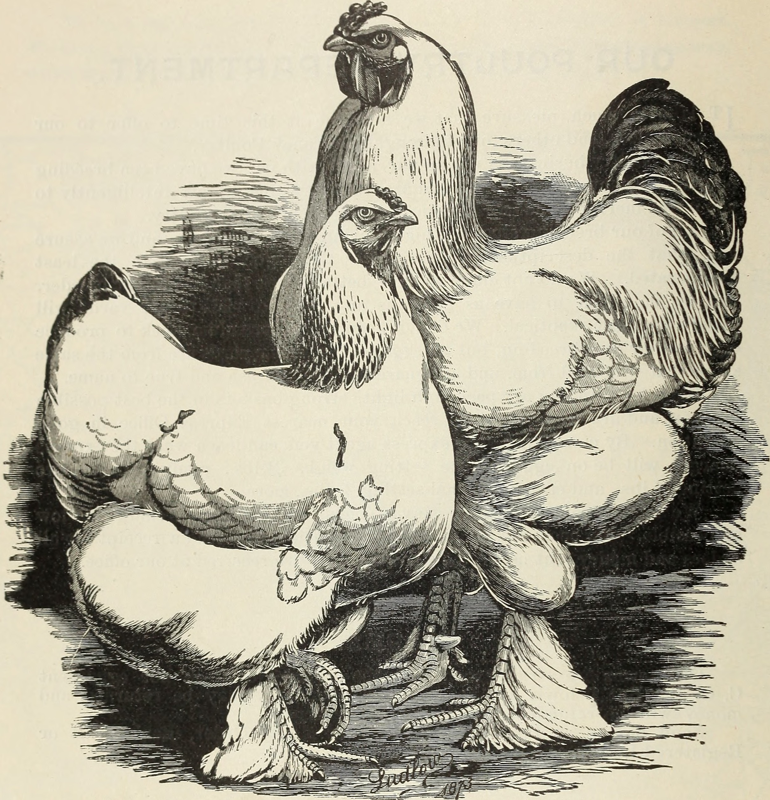 Title: Annual catalogue of the Freeport Nurseries and Poultry Yards Year: 1893 (1890s) Authors: Freeport Nurseries and Poultry Yards; Henry G. Gilbert Nursery and Seed Trade Catalog Collection Subjects: Nurseries (Horticulture), Illinois, Catalogs; Poultry industry, Catalogs; Nursery stock, Catalogs; Flowers, Catalogs; Fruit trees, Catalogs Publisher: Freeport, Ill. : J. W. Miller Co. Text Appearing Before Image: 36 The J. W. Miller Co. Text Appearing After Image: LIGHT BRAHMAS, A well known poultry breeder in describing this noble bird says, " Any breed that can stand the test of rivalry so long, and still continue to satisfy and please the thousands breeding them, must have qualities of a very high order". The Light Brahma is the largest of all our poultry, and furnish more pounds of eggs and flesh in twelve months, than any other breed. When matured the cock weighs twelve, and the hen ten pounds. They are gently, handsome and practical, and are so quiet and docile, that a fence four feet high will keep them. Our yard of this grand breed is the best in the country, and we defy competition. It is headed by a cockerel scoring 95, and there is not a bird in our pen scoring under 90, while some of the pullets score as high as 95 and 96. Keep the poultry house clean and dry.